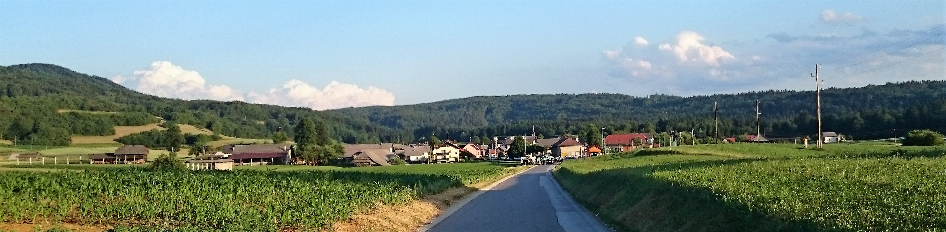 Hrastov dol near Ivančna gorica